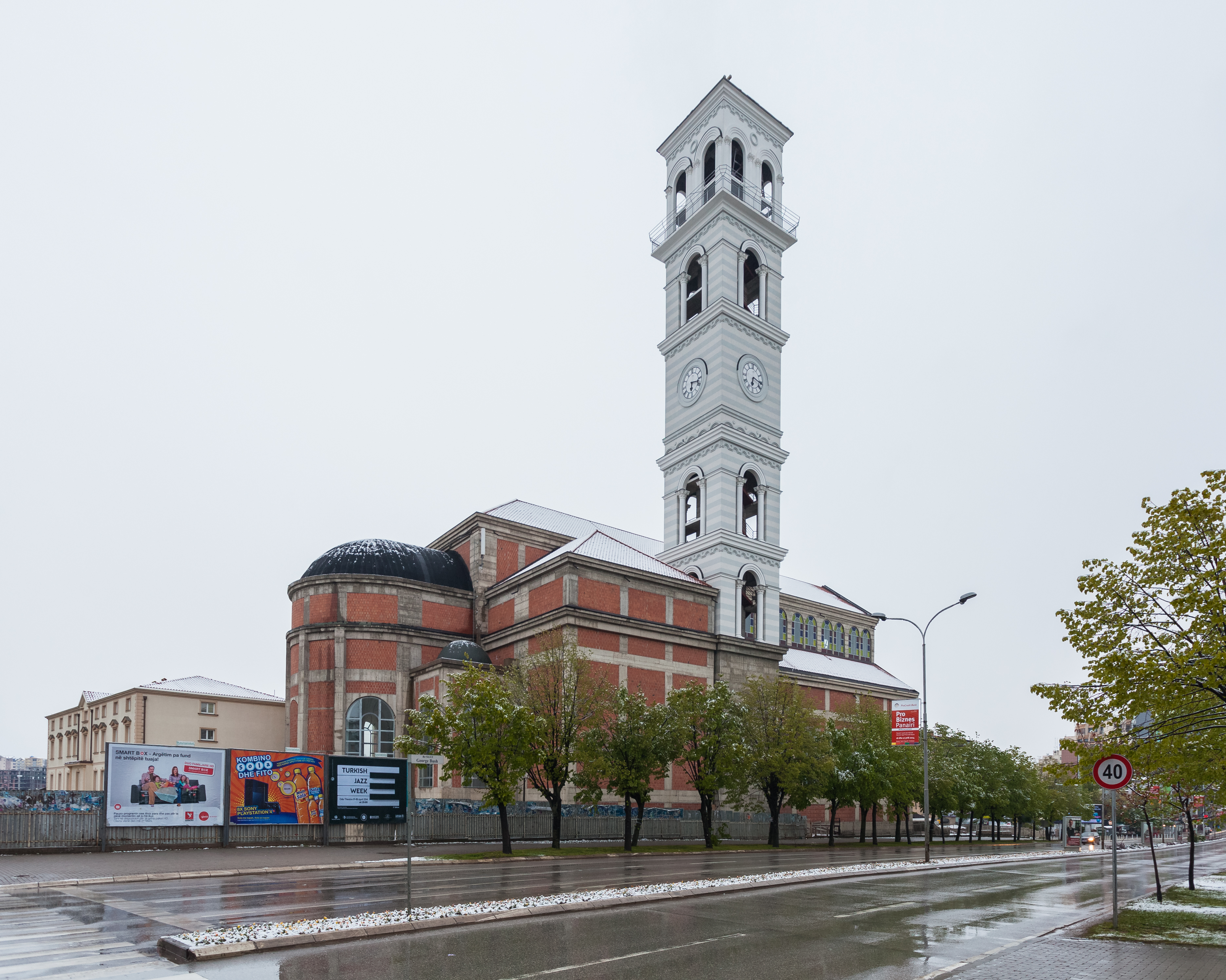 Mother Teresa Cathedral, Pristina, Kosovo